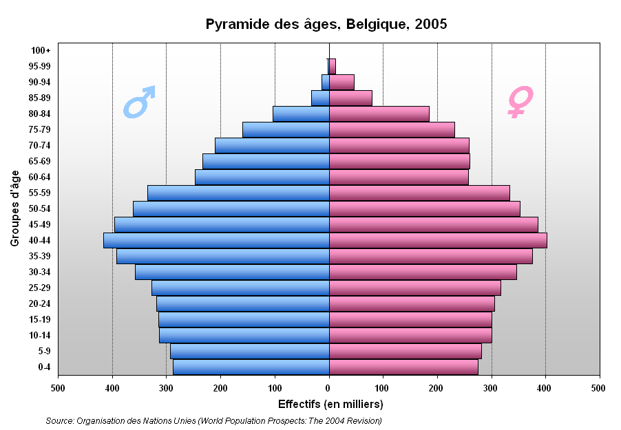 Belgium Population pyramid, 2005